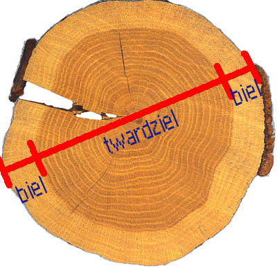 heartwood and sapwood in quercus